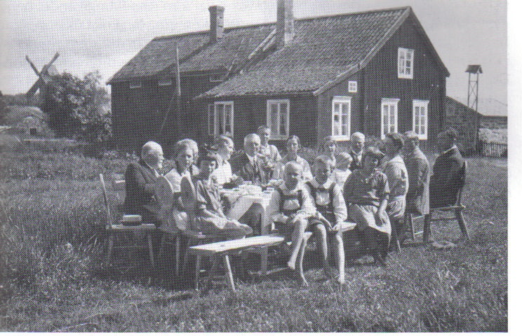 Guests on the pansionat in Ragetsbole, Aland, Finland in the early 20th century.